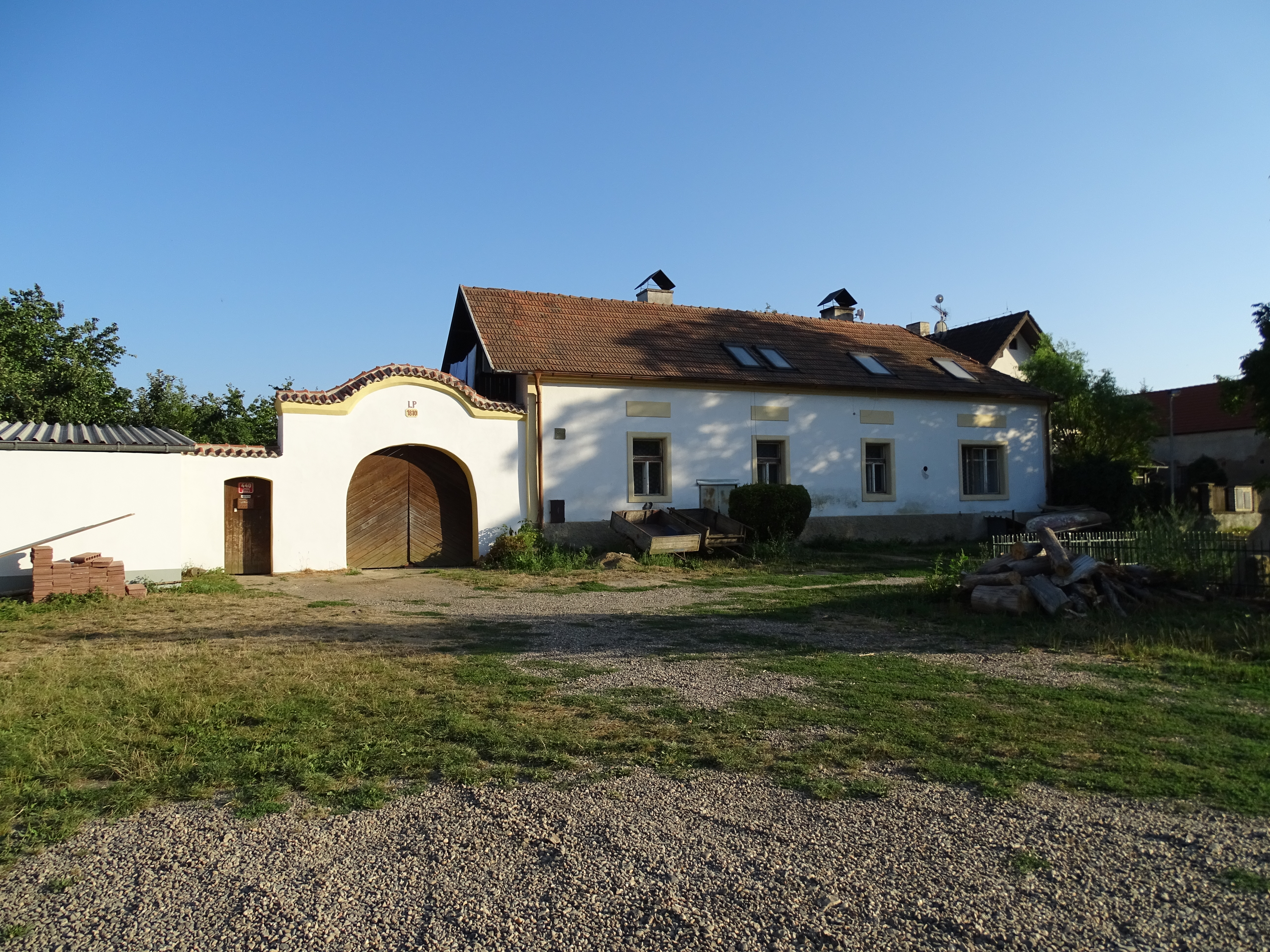 Prague-Lipence, Czech Republic. Dolní Černošice, Dolnočernošická 440.